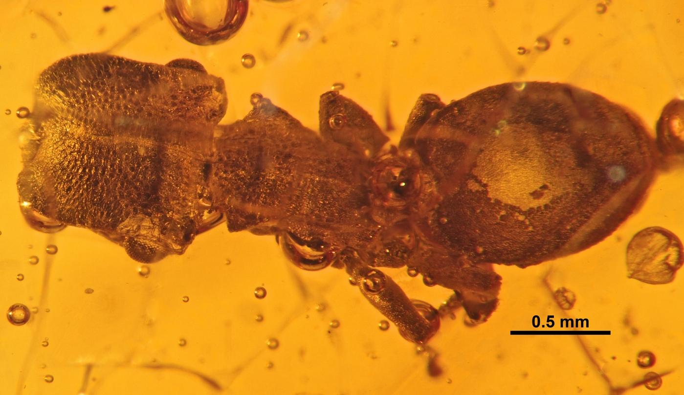 Dorsal view of the Cephalotes dieteri holotype worker. Dominican amber, Burdigalian; Dominican Republic, Hispaniola Staatliches Museum fur Naturkunde, specimen SMNSDO618